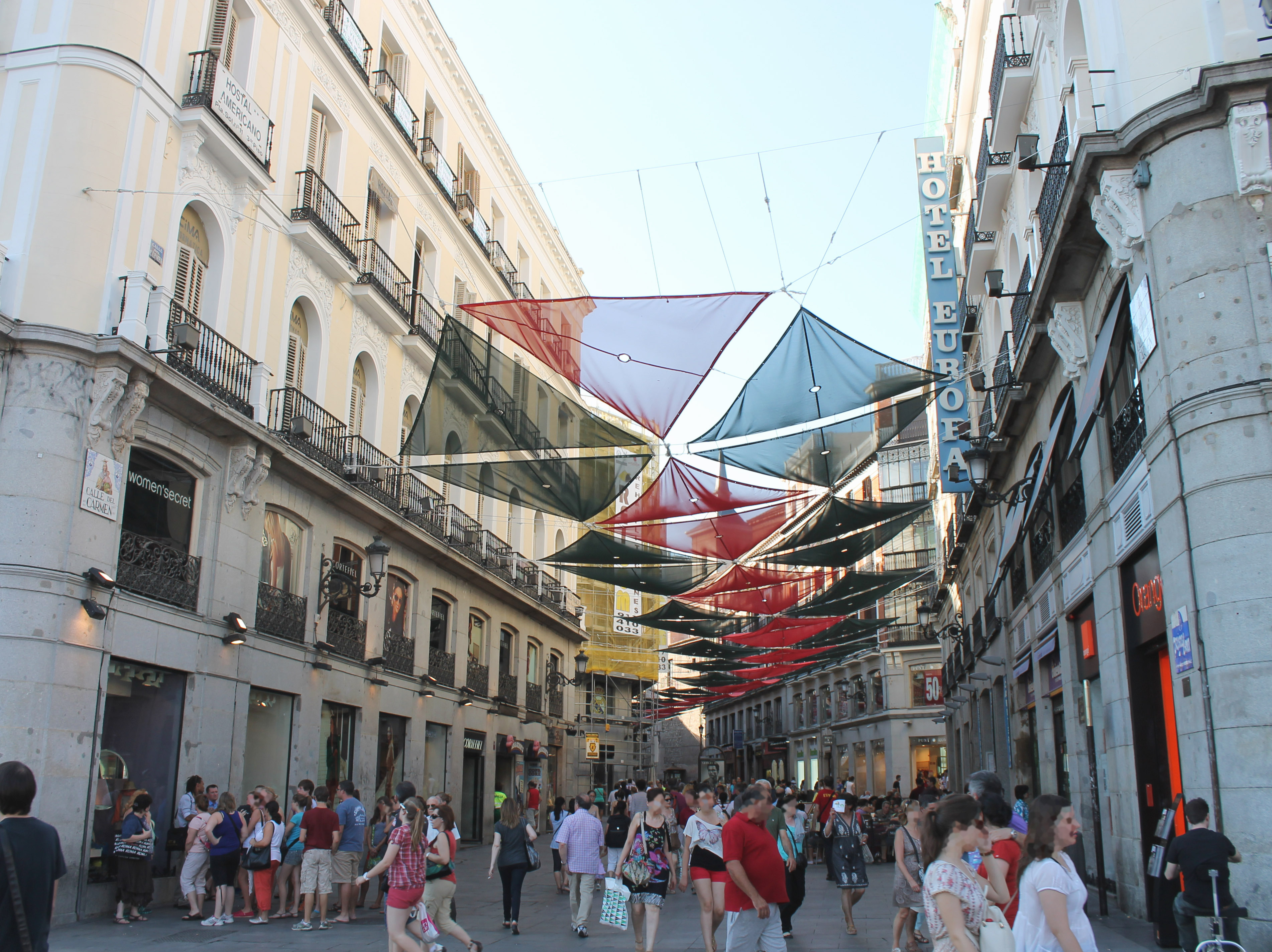 View of Calle del Carmen (street) in Centro district in Madrid (Spain).